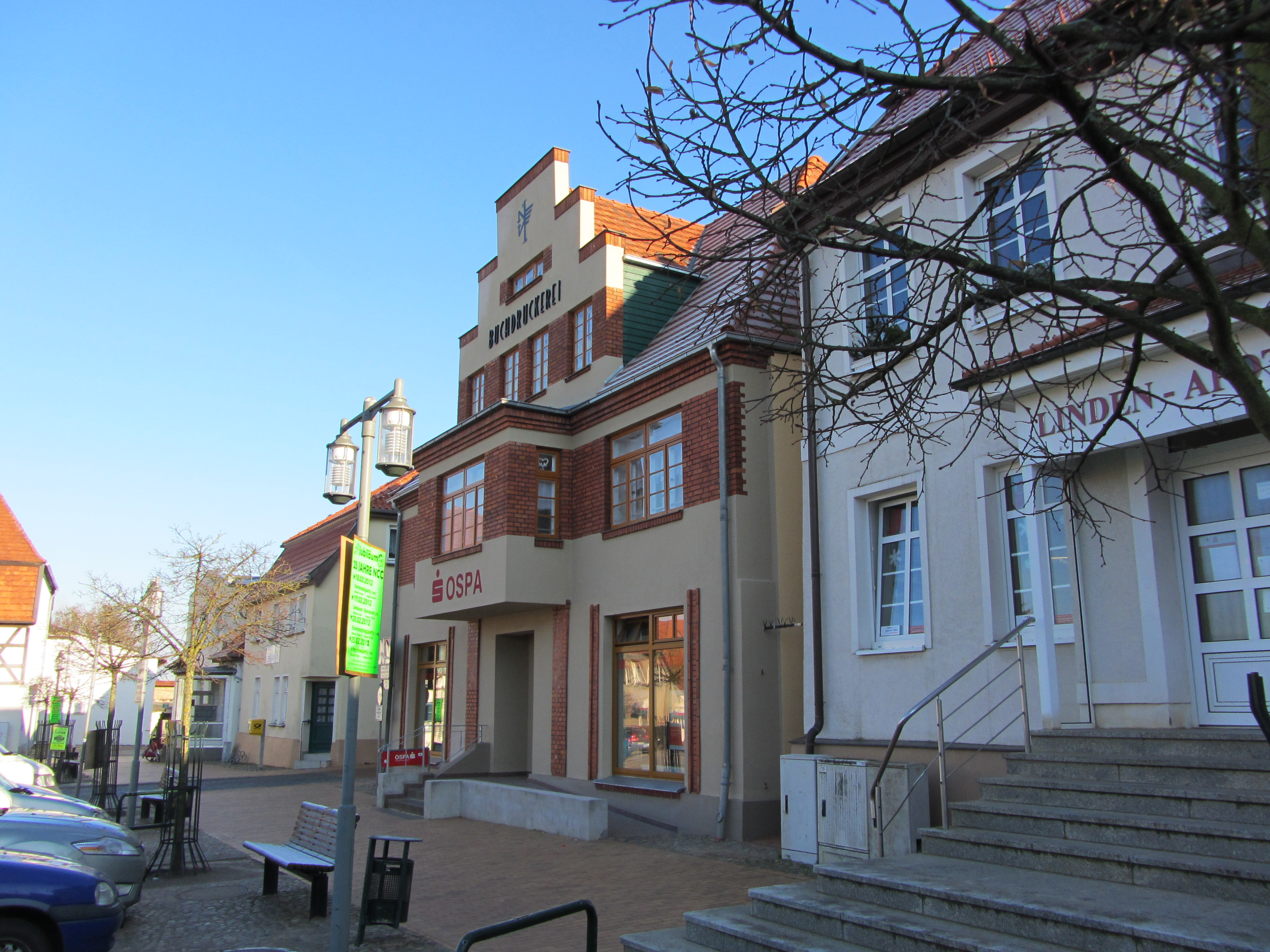 Buildings at market place in Neubukow, district Rostock, Mecklenburg-Vorpommern, Germany